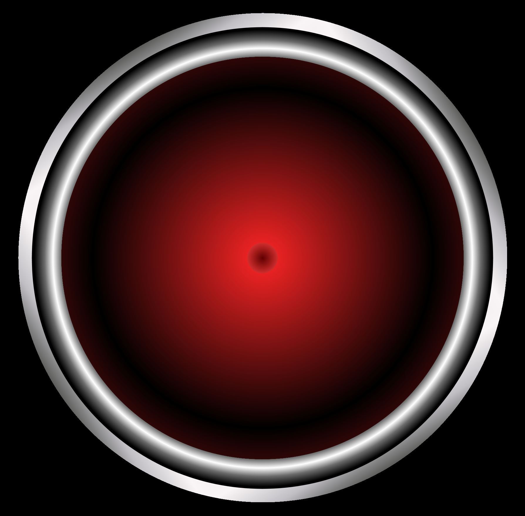 Electronic eye